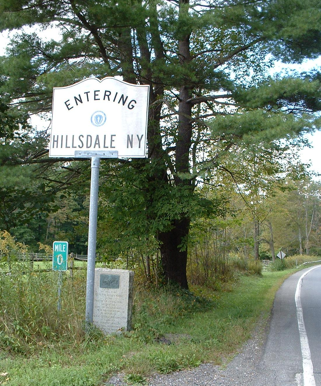 Route 71 entering the town of Hillsdale, New York from Alford, Massachusetts.